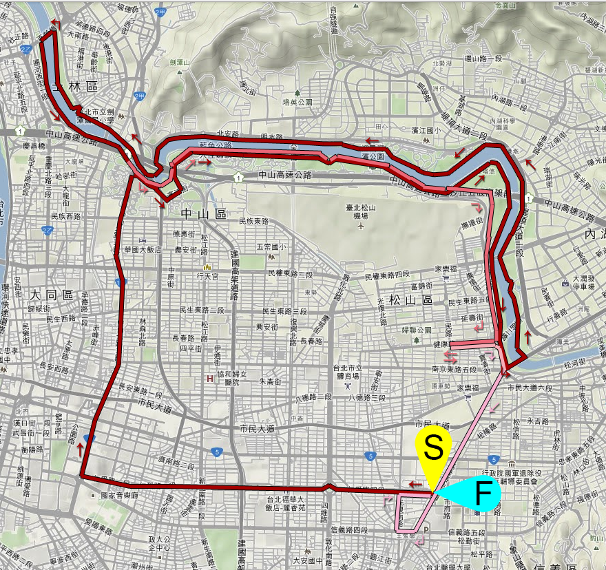 The 42.195 KM Marathon route map of 2012 Taipei International Marathon